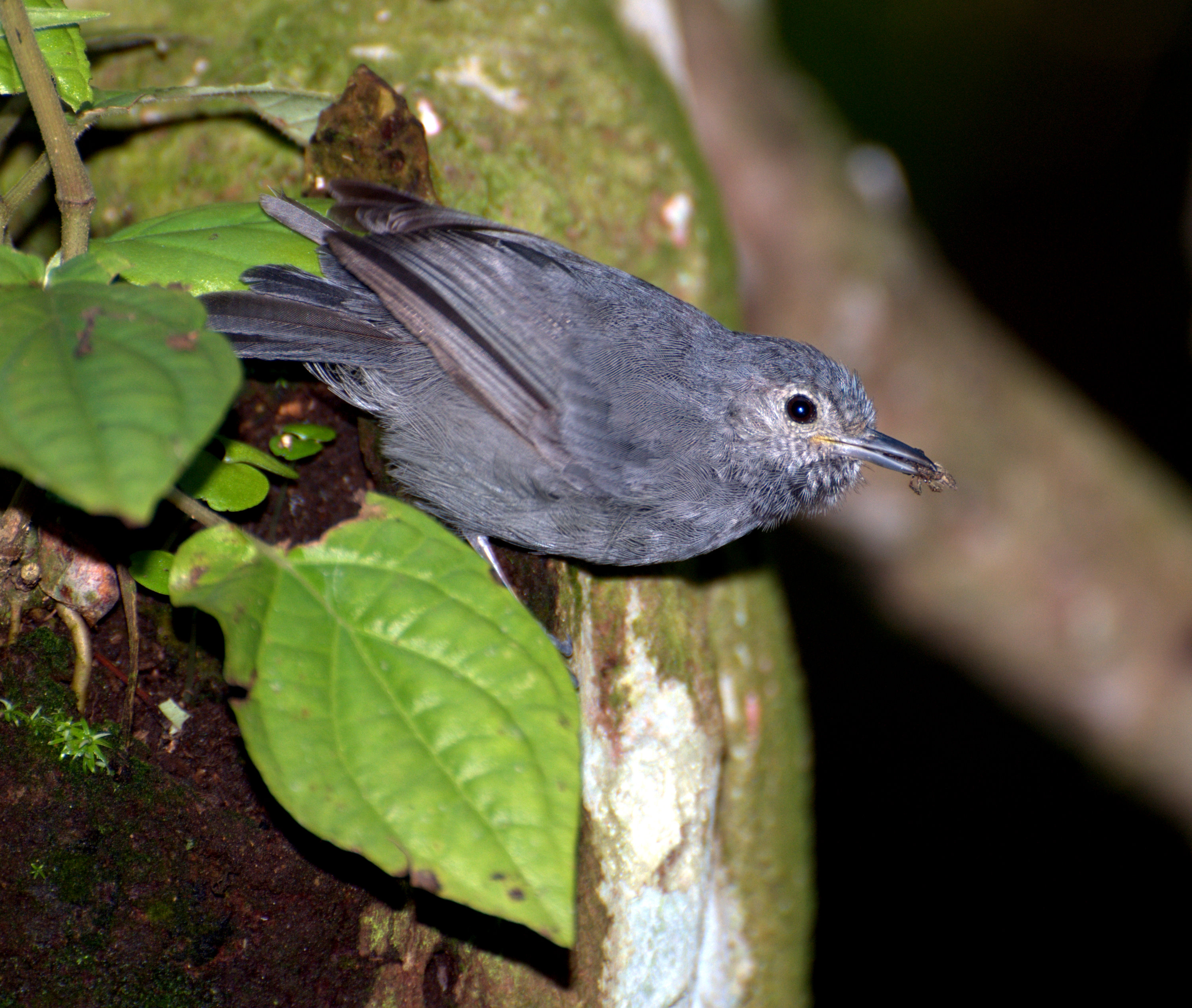 Unicolored Antwren - (Myrmotherula unicolor). Vale do Ribeira - Registro-SP - Brasil